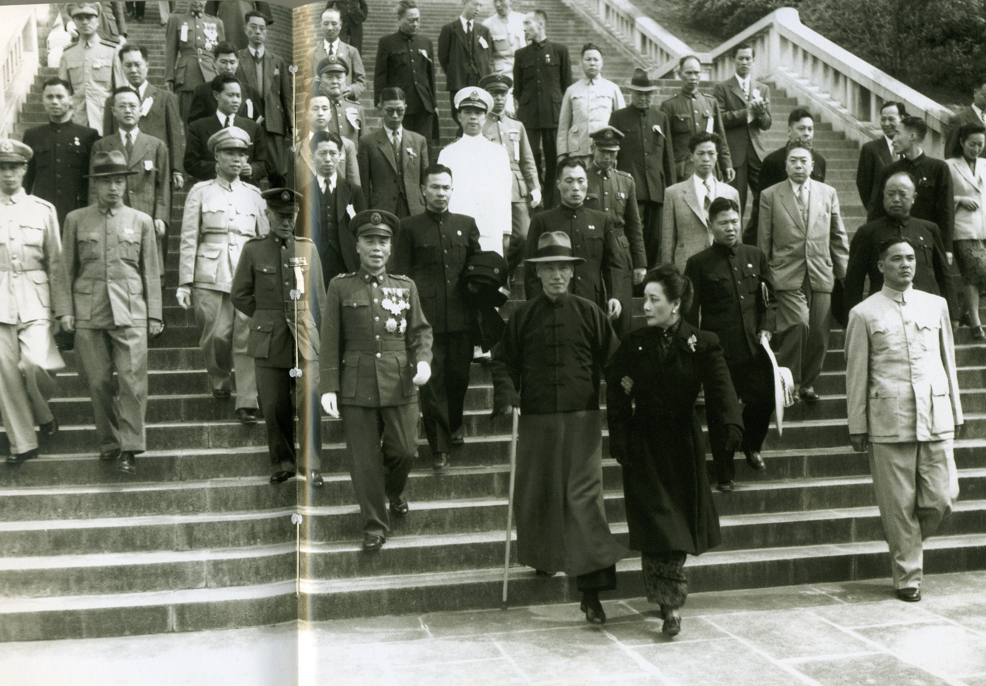 Chiang and Lee in 1948